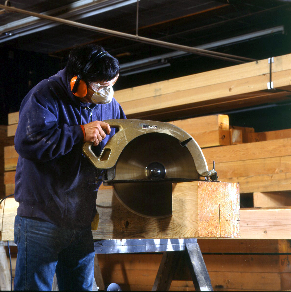 A worker uses a large circular saw to shame to joints in a member of a Timber Frame